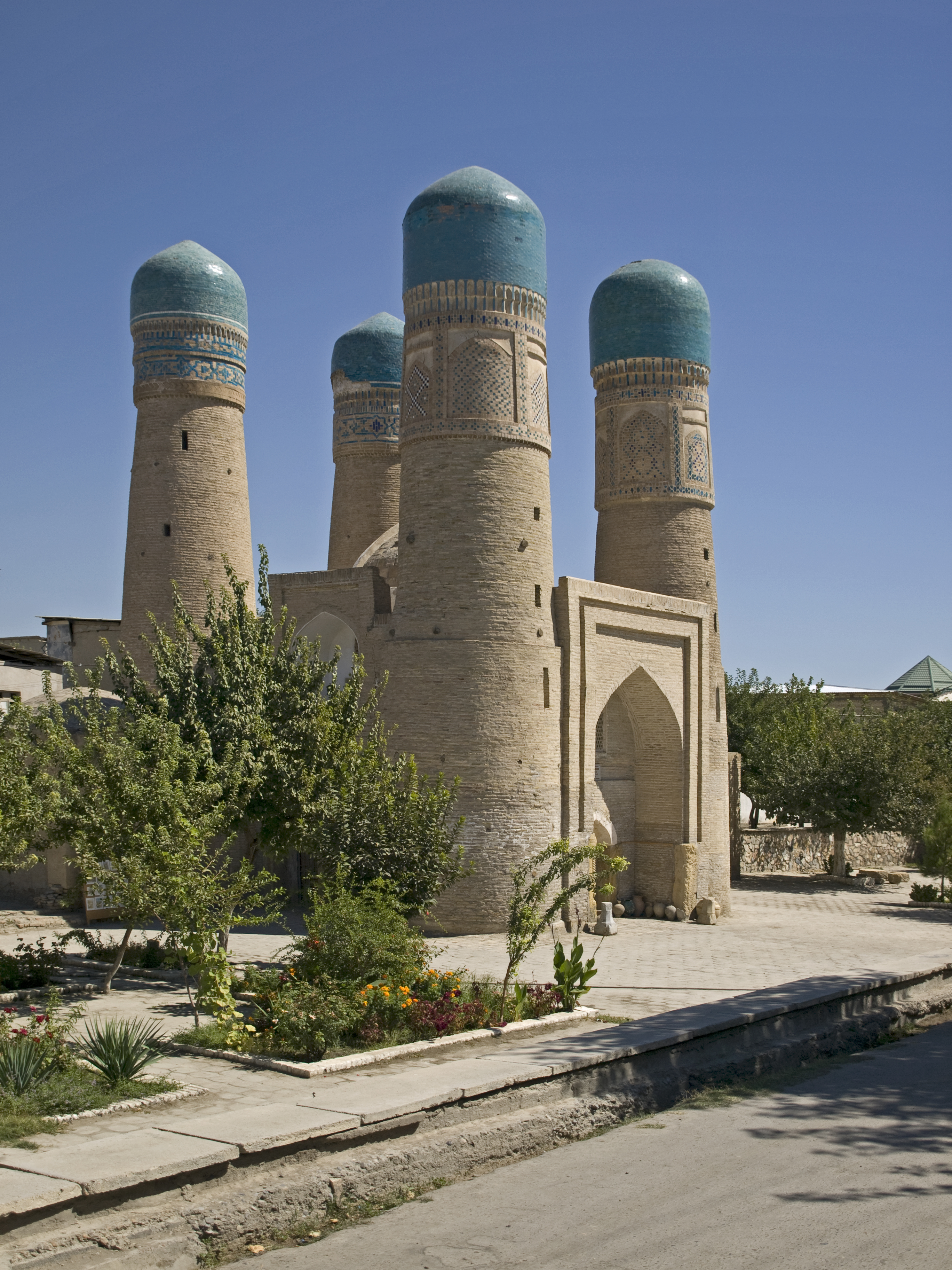 Chor minor from southwest, Bukhara